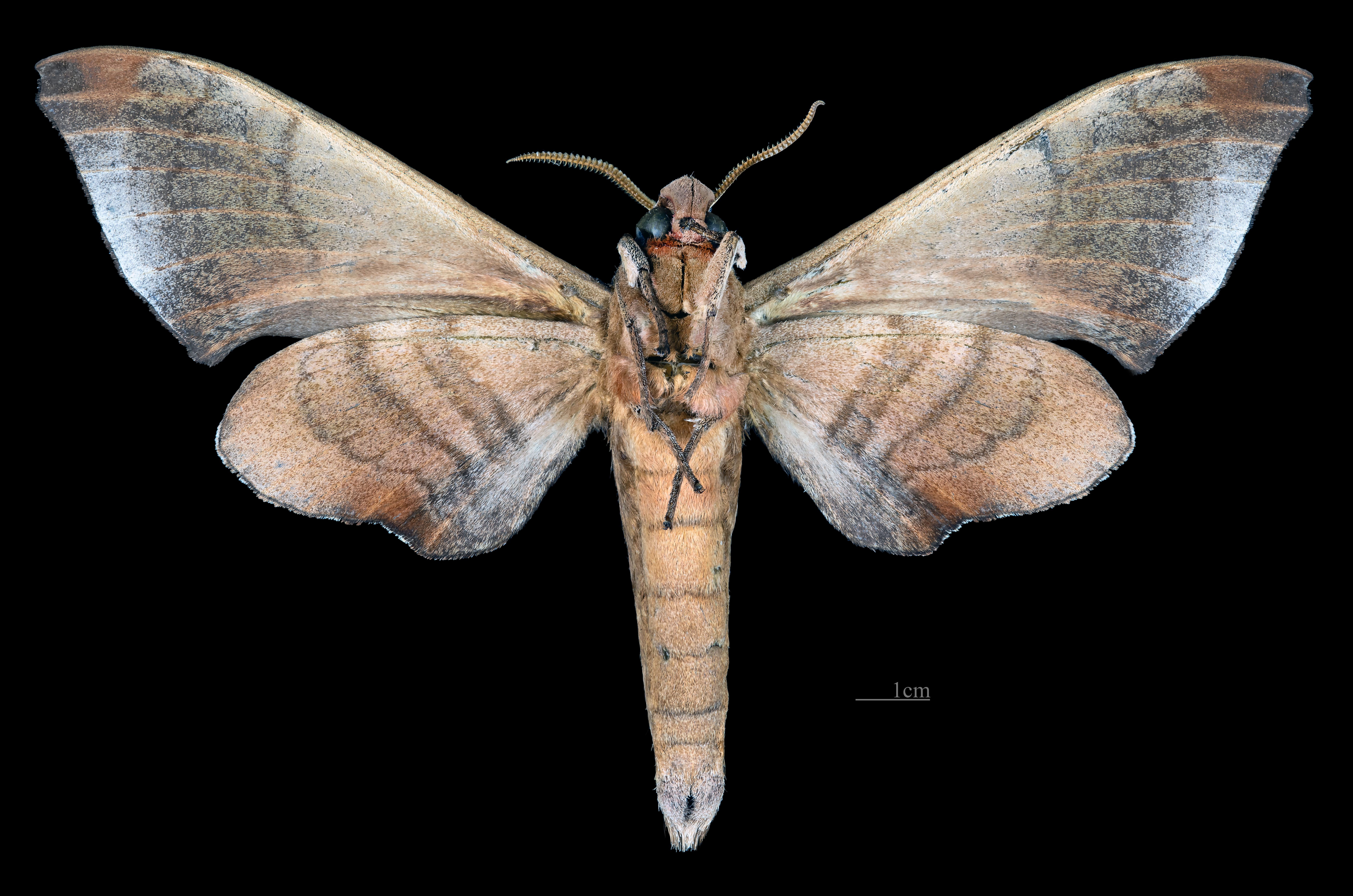 Daphnusa sinocontinentalis - △ Ventral side Collection of the Mathematician Laurent Schwartz